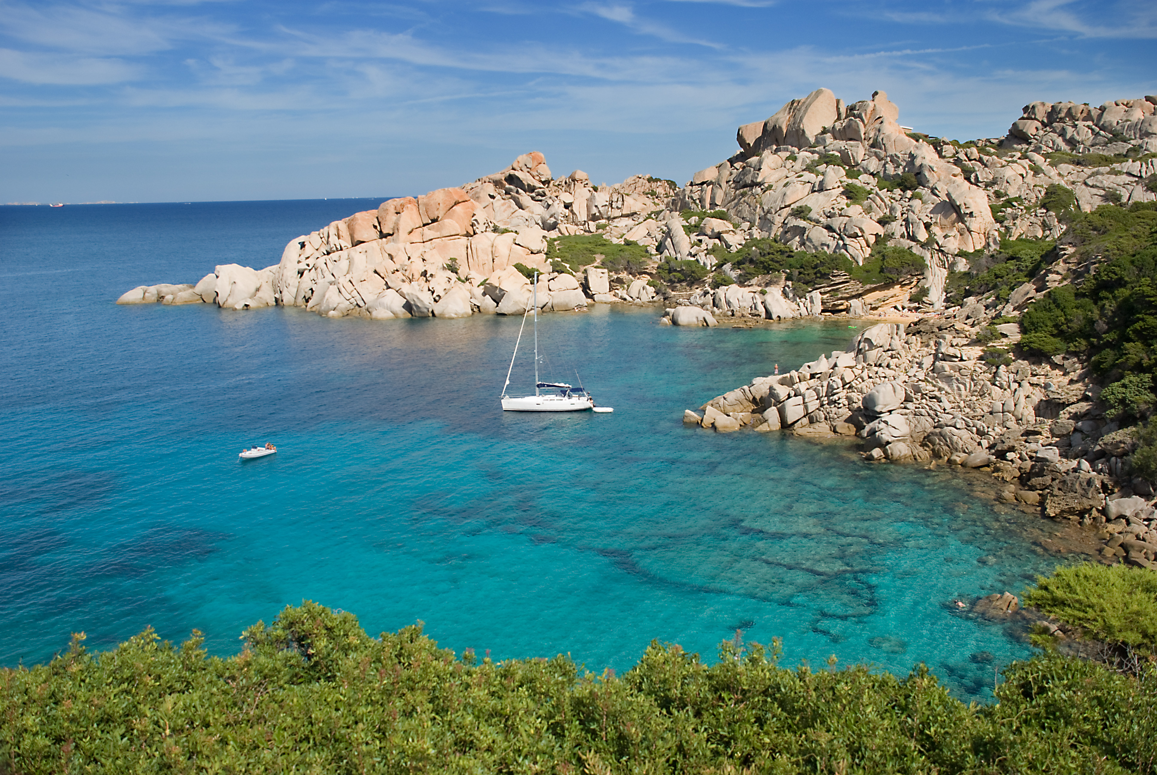 Capo Testa, Sardinia, Italy